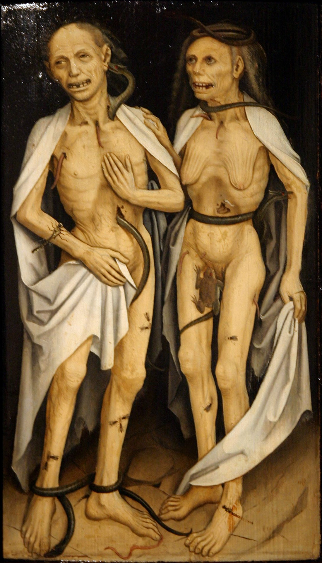 The deceased lovers